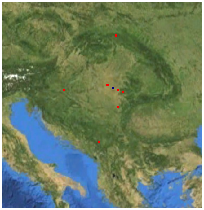 Succesive places where Tibor Sekelj (1912-1988) has lived in Europe (without place names)